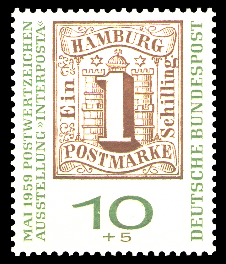 Interposta, international exhibition of stamps 1959 Graphics by Schraml Ausgabepreis: 10+5 Pfennig First Day of Issue / Erstausgabetag: 22. August 1959 Michel-Katalog-Nr: 310 b